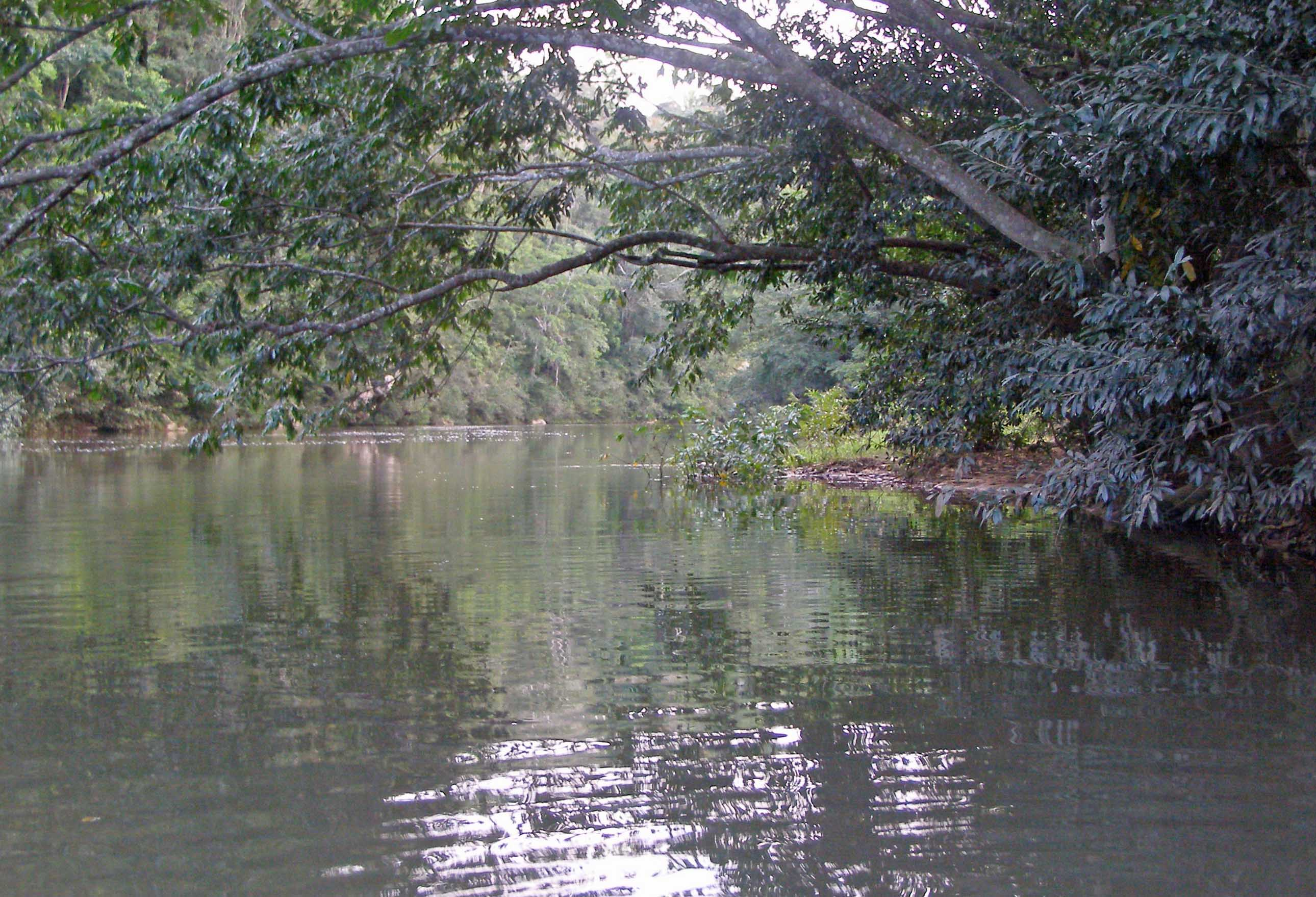 Subject:Lower Macal River in Belize. Date: January, 2007 Photographer: C. Michael Hogan Permission: emailed to Wikipedia Permissions Department